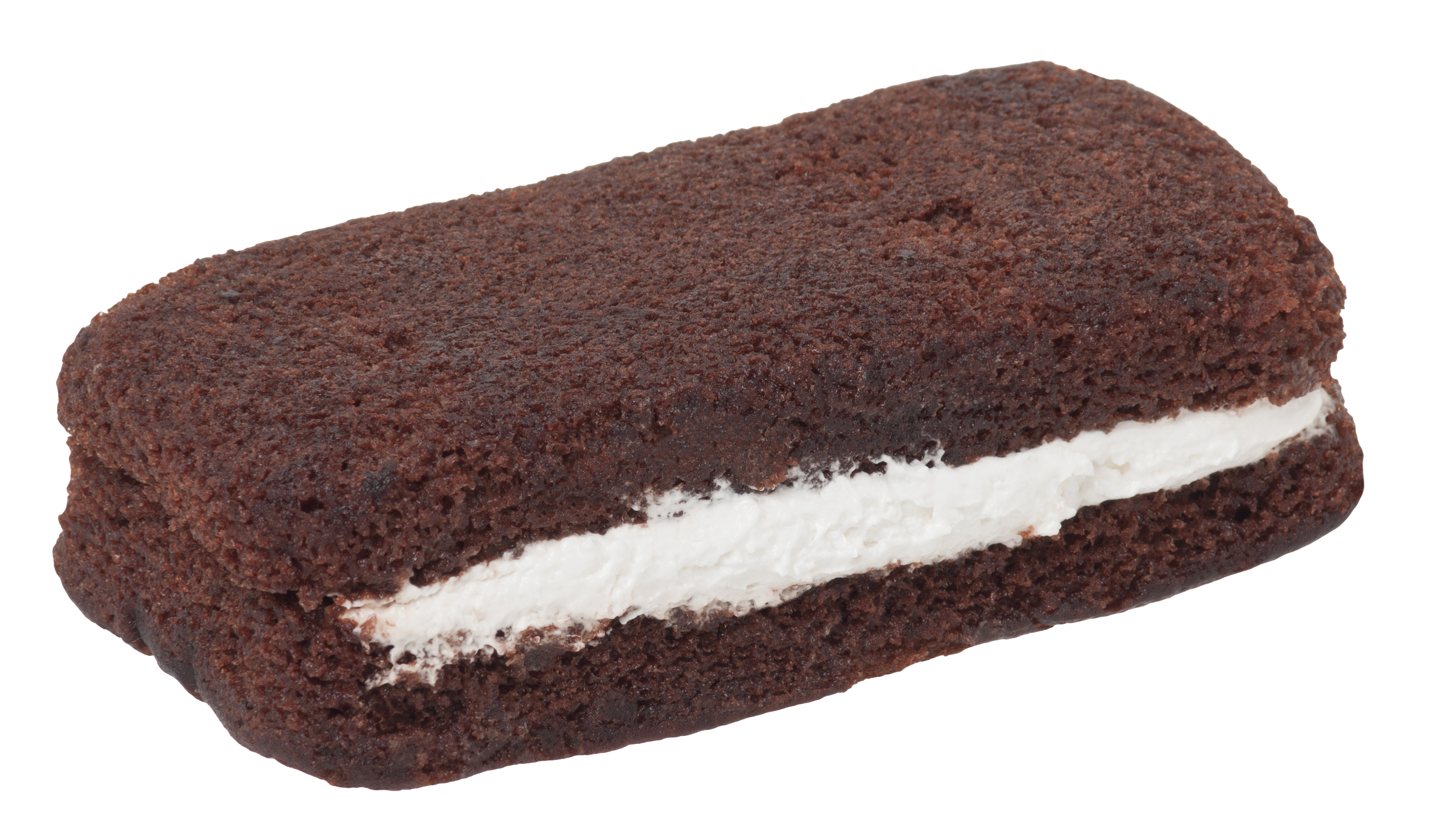 A Suzy Q snack cake, a chocolate sponge cake filled with cream. Sold by Hostess in the United States.